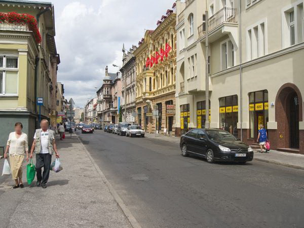 Street view 2